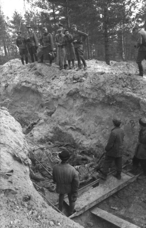 Opening of mass graves in the spring of 1940 of murdered Polish officers in Soviet captivity